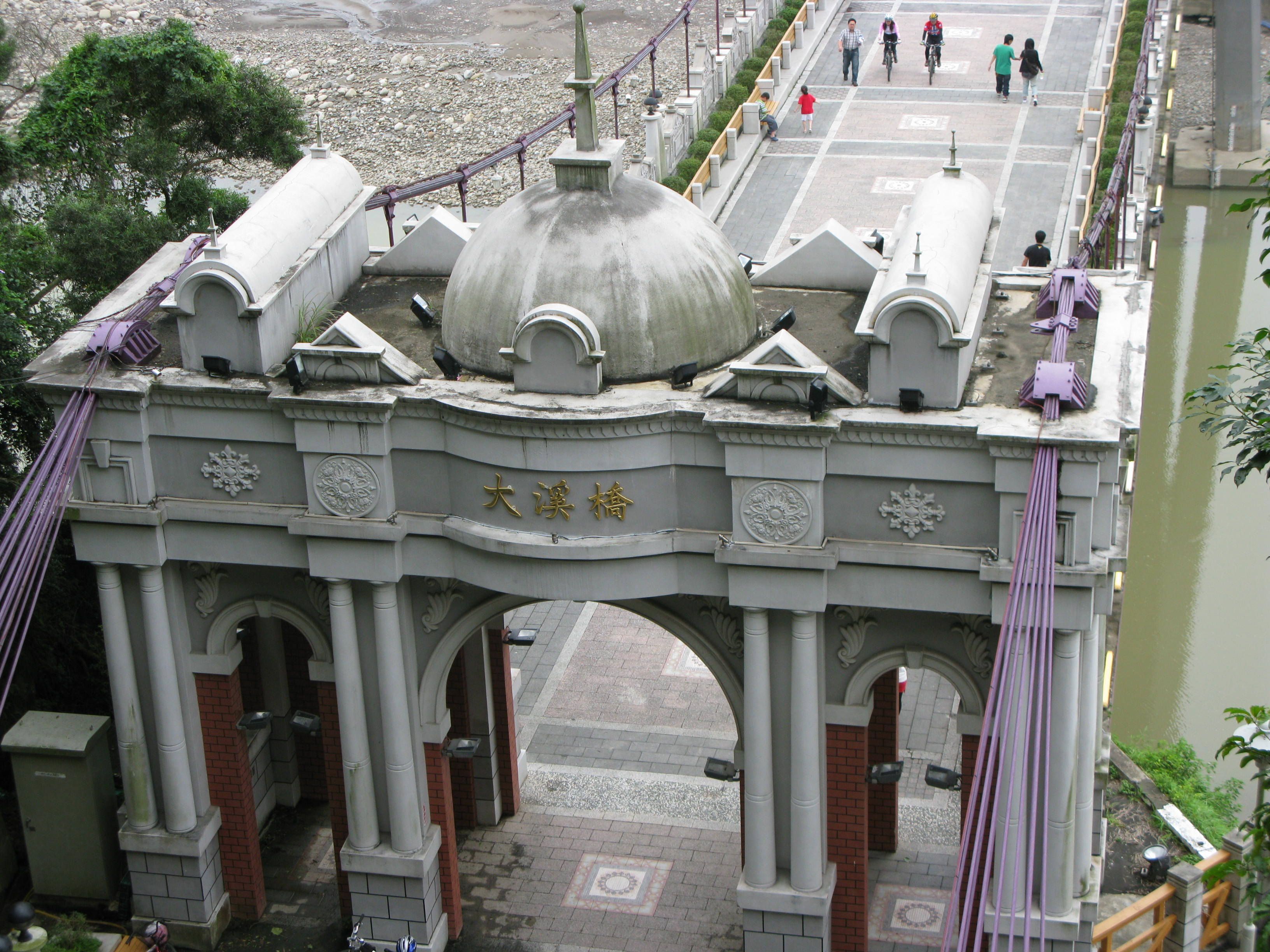 DASI Bridge,TAIWAN.